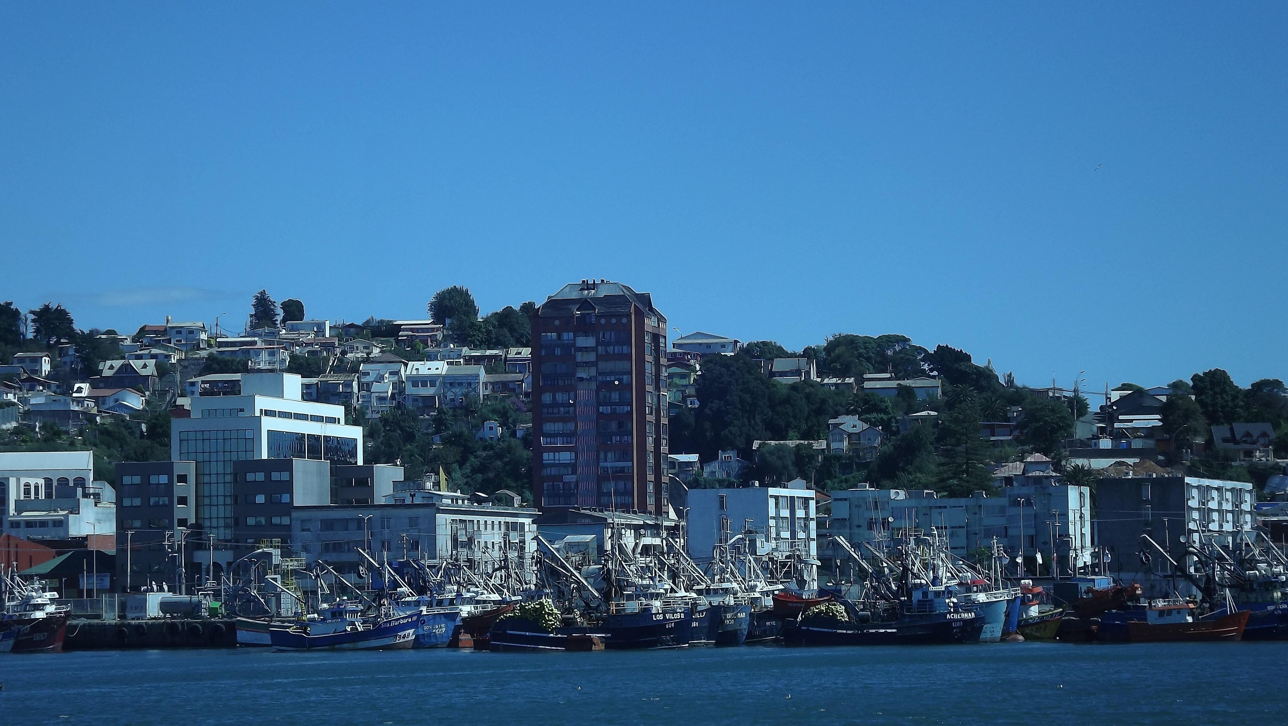 Sesotho: Talcahuano